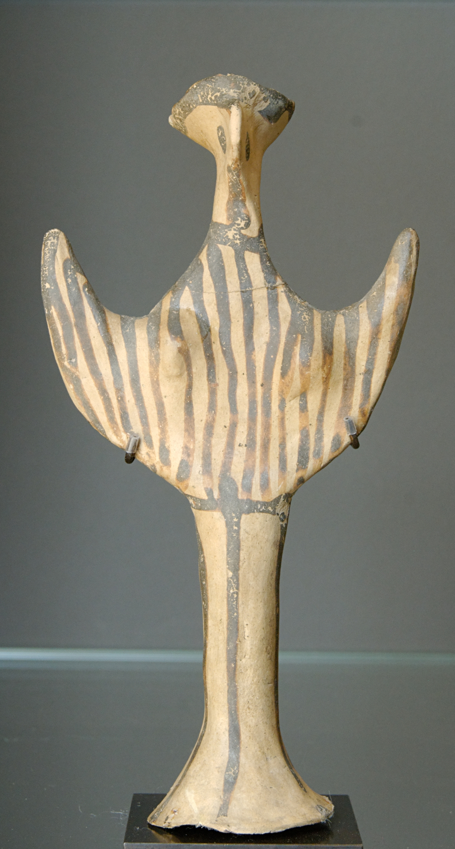 Psi-figurine. Terracotta, Late Helladic IIIB1 (ca. 1280 BC). From Tiryns.